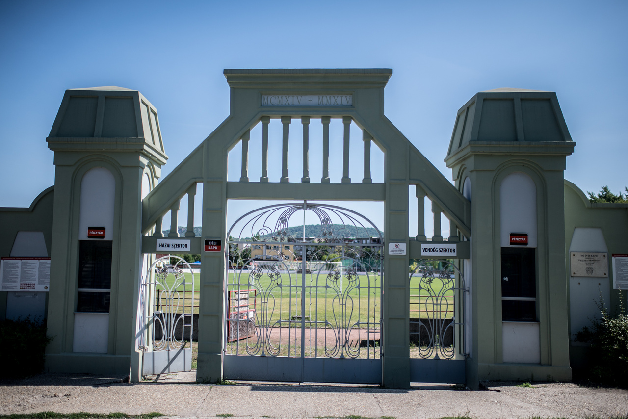 The classic style South gate was renewal for the Centenary anniversary